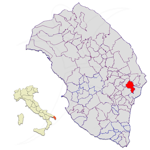 Il Territorio del comune di Minervino di Lecce nella provincia di Lecce